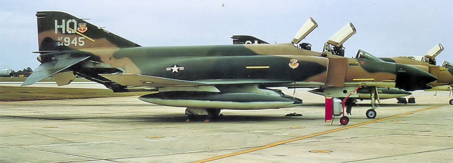 8th Tactical Fighter Squadron McDonnell F-4D-25-MC Phantom 64-0945 Holloman AFB 1976 Aircraft retired to AMARC as FP0292 Aug 15, 1989. Returned to Holloman AFB, NM for aireal target as QF-4D Dec 17, 1997 and expanded.